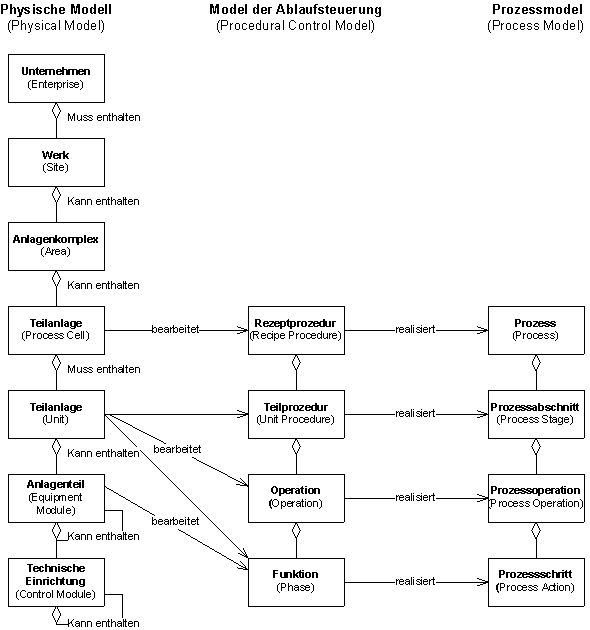 UML model of ISA S88